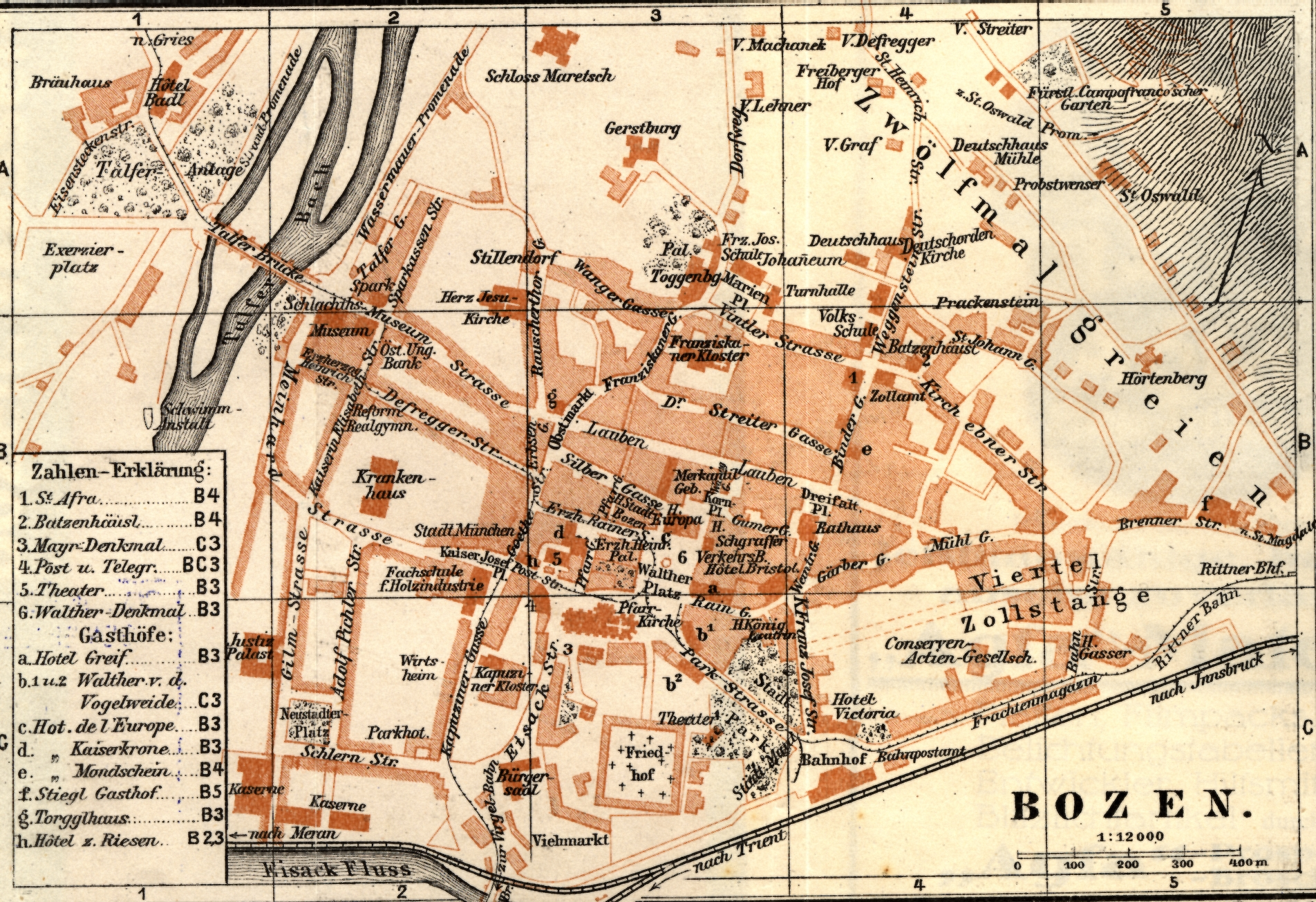 City map of Bozen-Bolzano in 1914